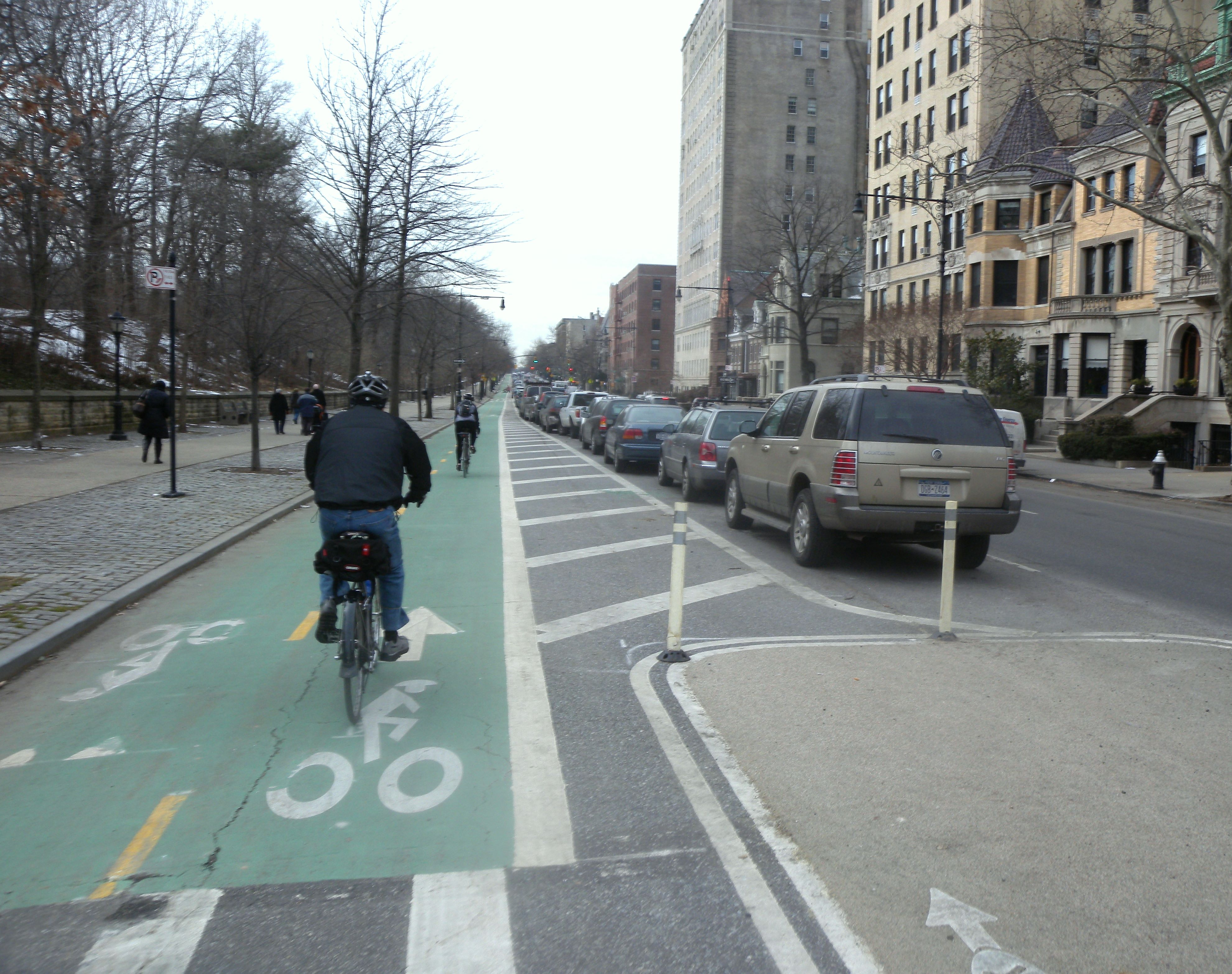 Looking southwest from Carroll St along Prospect Park West on a cloudy day.